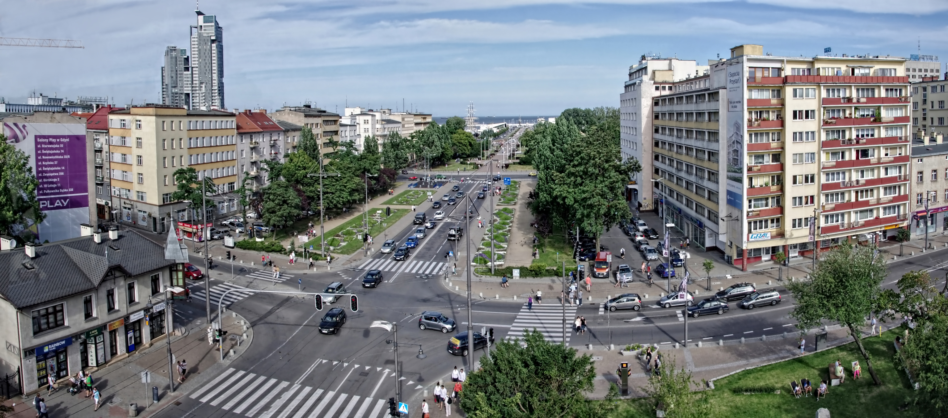 Gdynia - the city center. View from Infobox towards the sea.